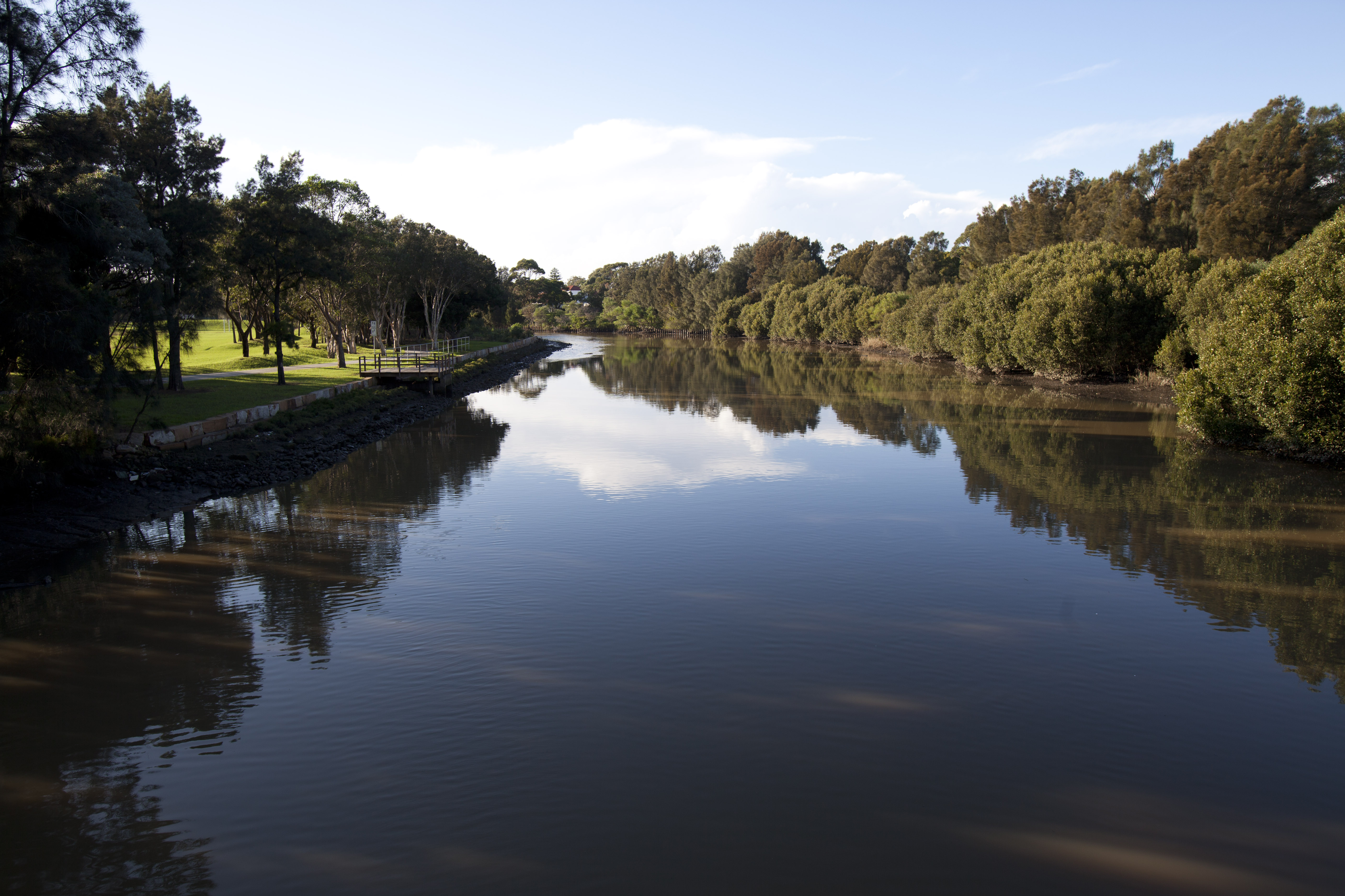 Cooks river (east view from Foord street footbridge), Hurlstone Park, NSW, Australia.